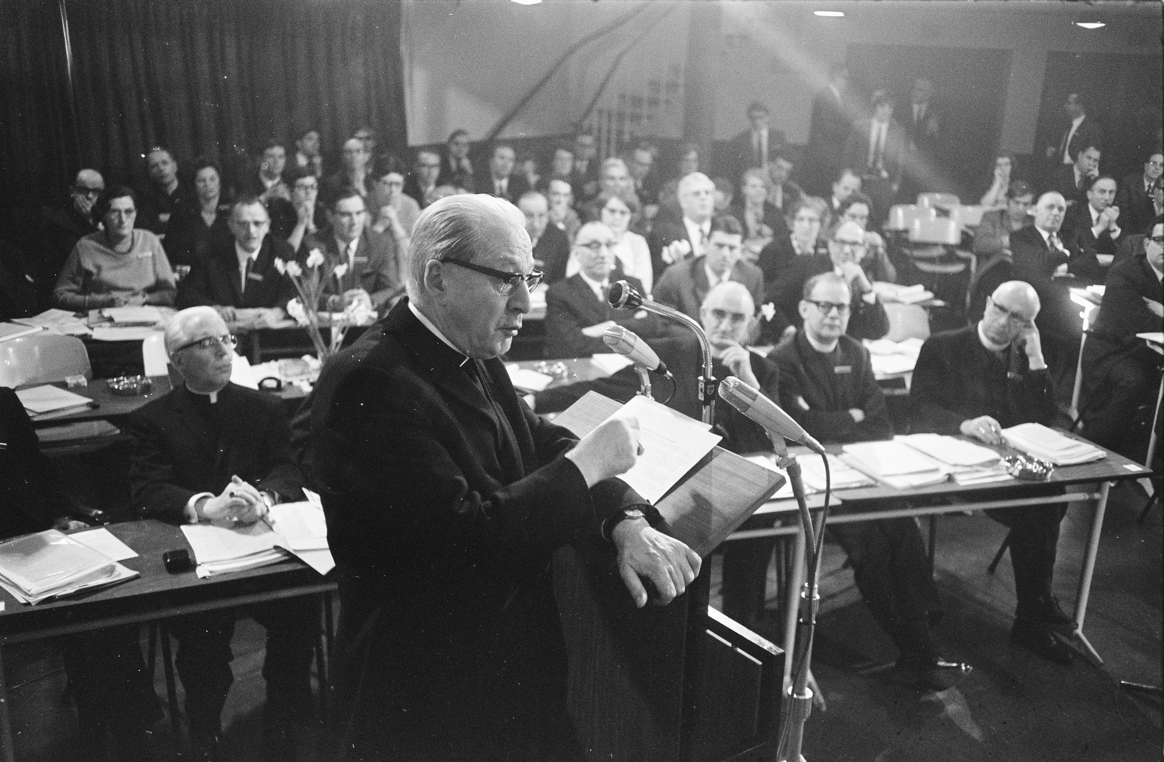 Dutch Cardinal Alfrink speaking at the Pastoral Council in Noordwijkerhout, April 1970